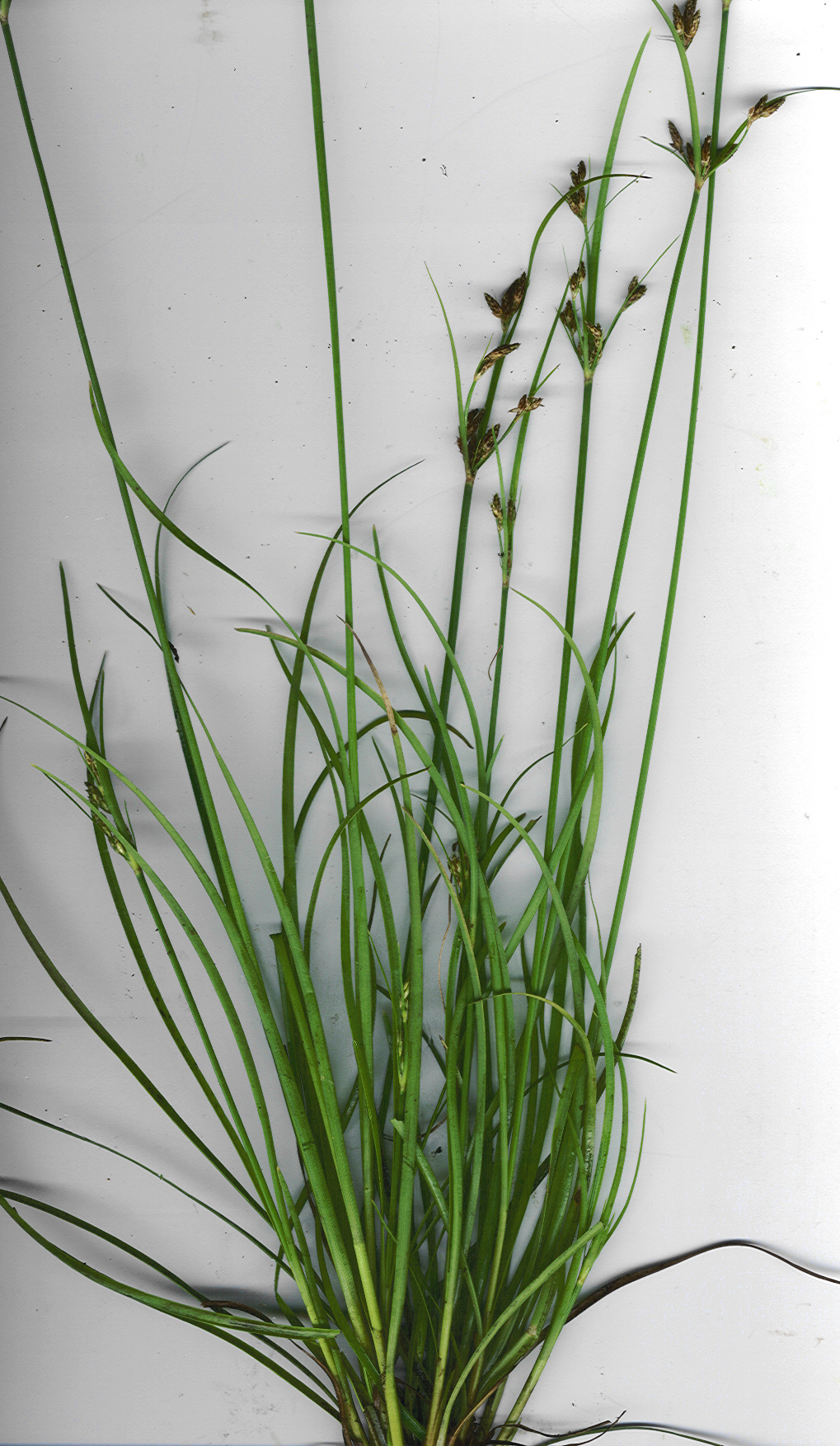 Fimbristylis dichotoma (plant). Location: Maui, Hana Hwy